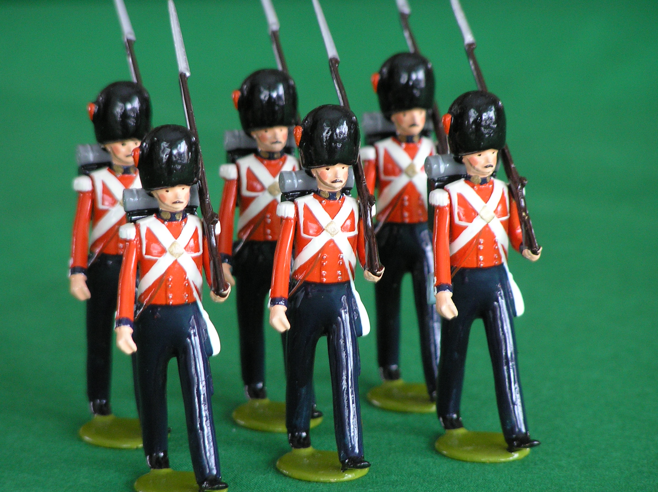 54mm Toy Soldiers representing the British Coldstream Guards during the Crimean War era by Imperial Productions, Greytown, New Zealand. Photo by J. Corey Butler, 2005.